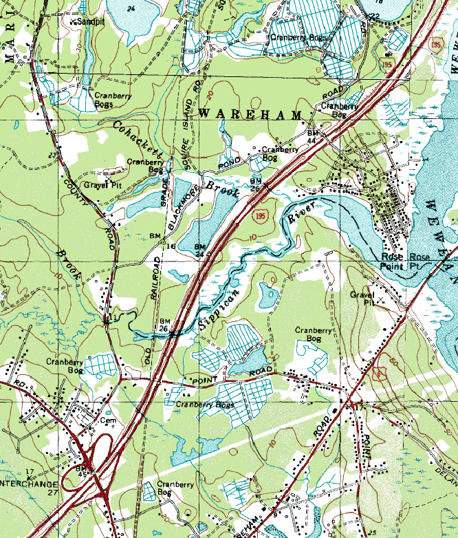 Map of Sippican River, Massachusetts, USA. Lower section of river. Sippican River Marshes, USGS Marion (MA) Topographic Map.